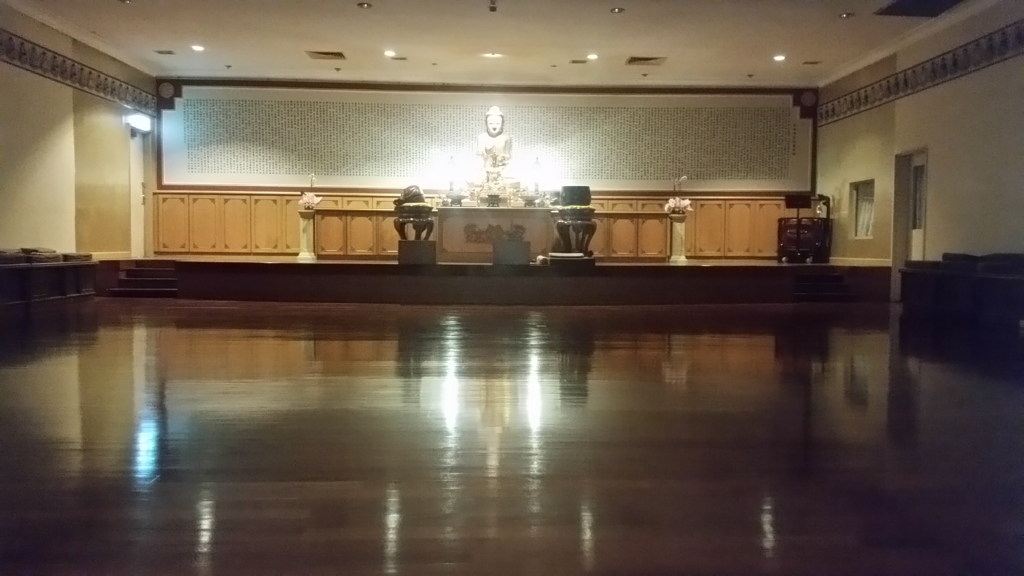 Chung Tian Meditation Building -MEDITATION HALL Meditation is the fundamental practice of Buddhism; it promotes peace of mind, clarity in thinking, and the development of wisdom.